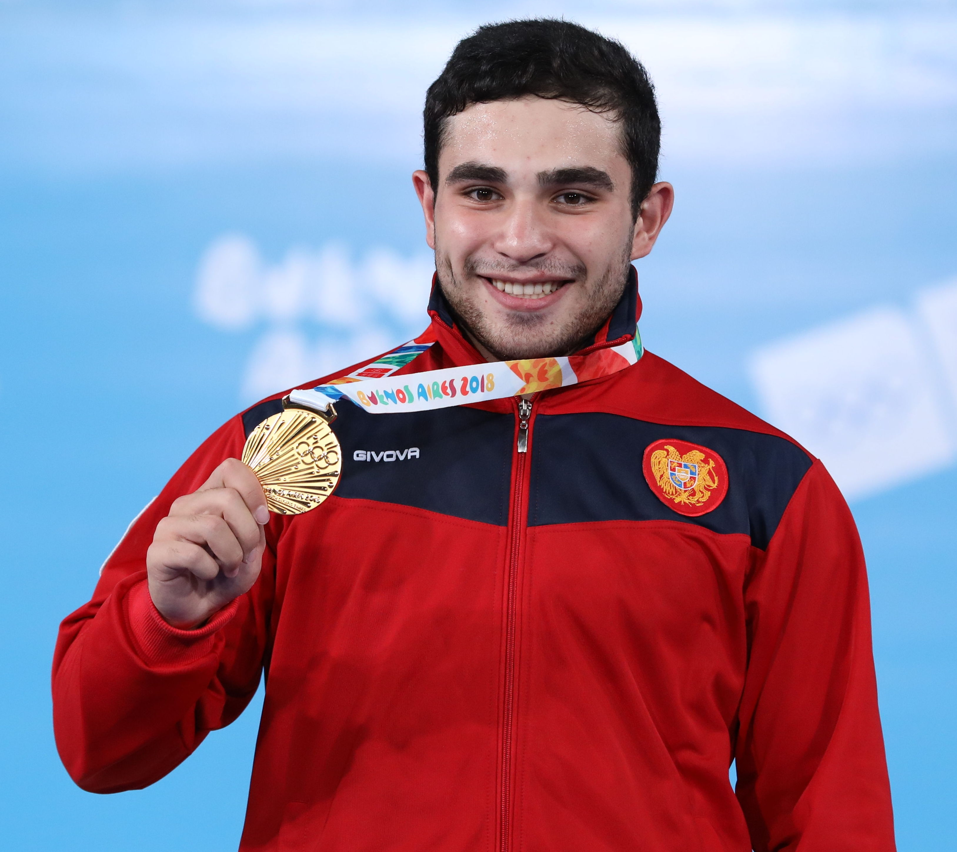 Weightlifting male, 77 kg: Victory ceremony – Karen Margaryan (Youth Olympic Champion)